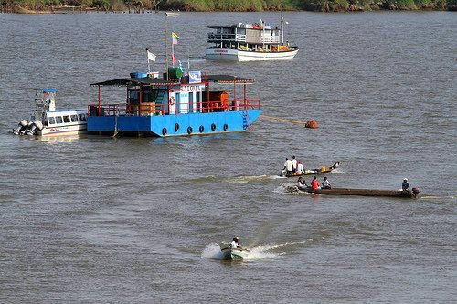 Actividades nauticas